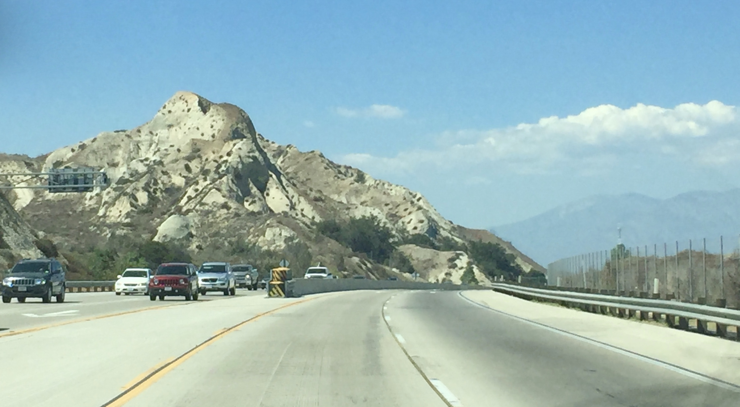 CA State Route 71 north of Corona, CA.